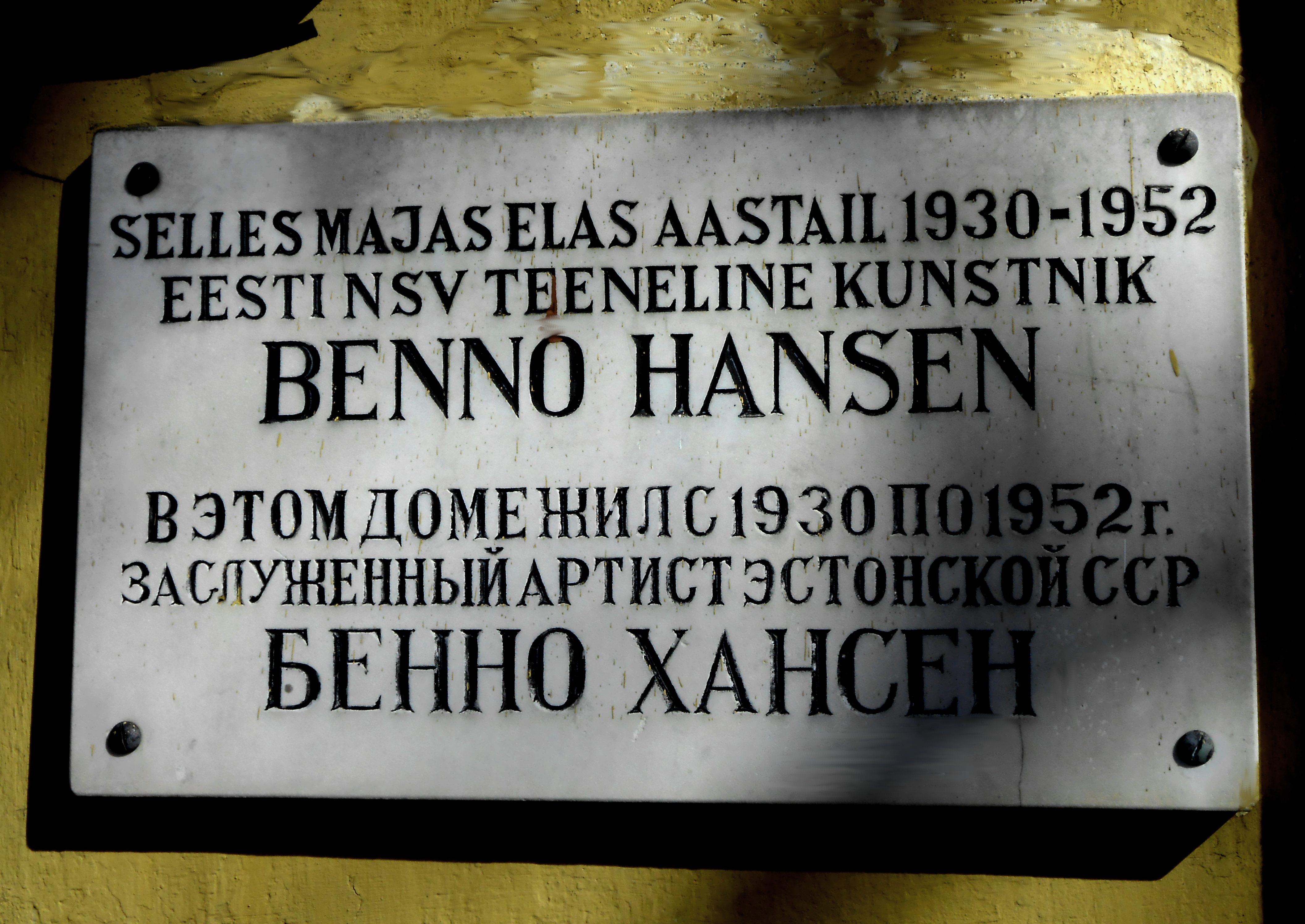 Mälestustahvel Ristiku tn. 58 Tallinn, Benno Hanseni elukoht.